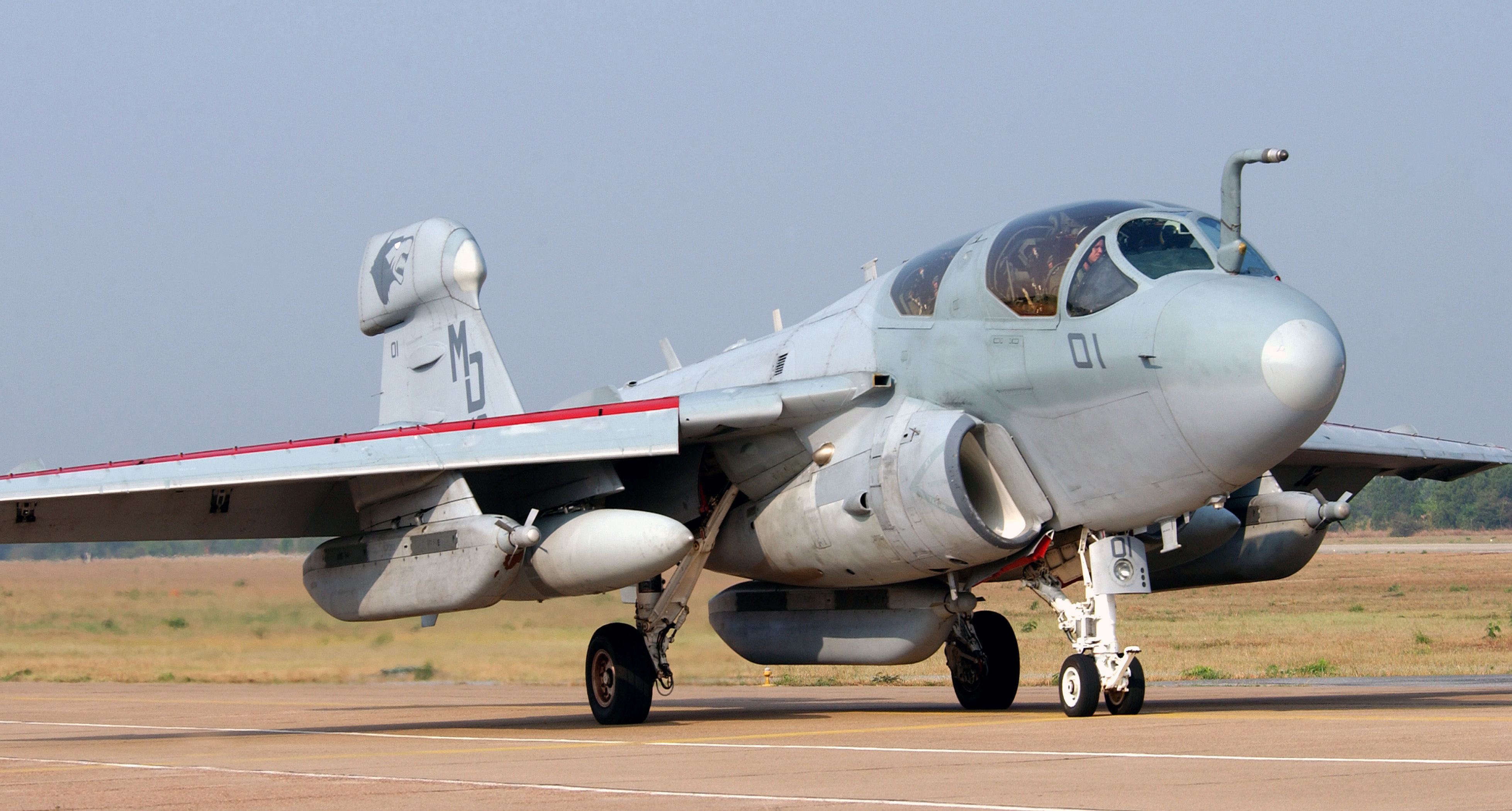 A U.S. Marine Corps Grumman EA-6B Prowler assigned to Marine tactical electronic warfare squadron VMAQ-3 Moon Dogs, prepares for take off at Korat Royal Thai Air Force Base, Thailand, during Exercise "Cope Tiger 2003" on 26 February 2003.